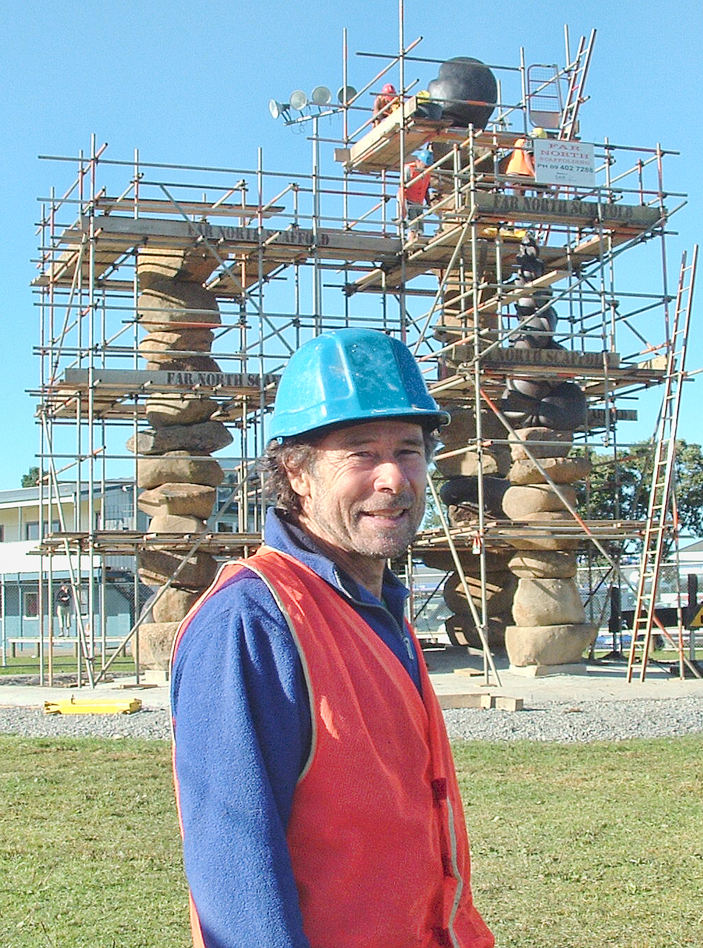 Hands-on artist Chris Booth in front of his imposing sculpture in the Domain at Kerikeri on 26 March 2009, just after the final piece was lifted into place, and the scaffolding began to come down. Photo taken by Kaiwhakahaere.